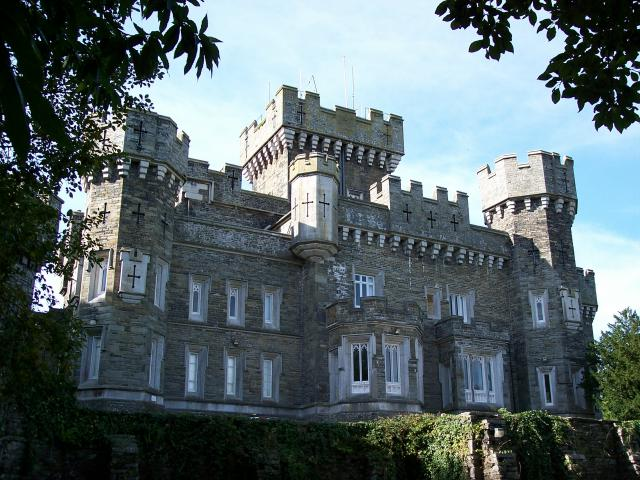 Wray Castle